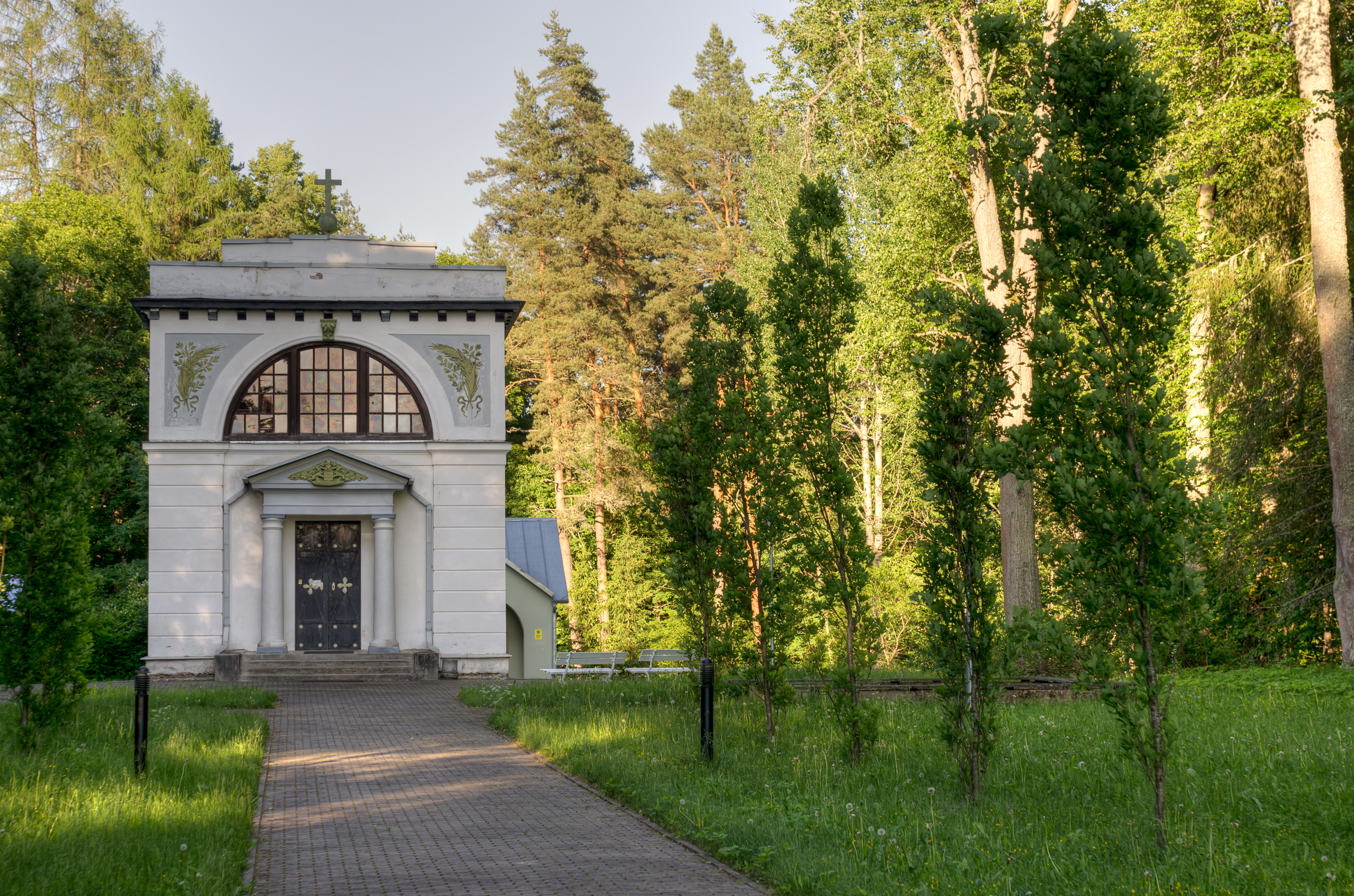 Barclay de Tolly mausoleum